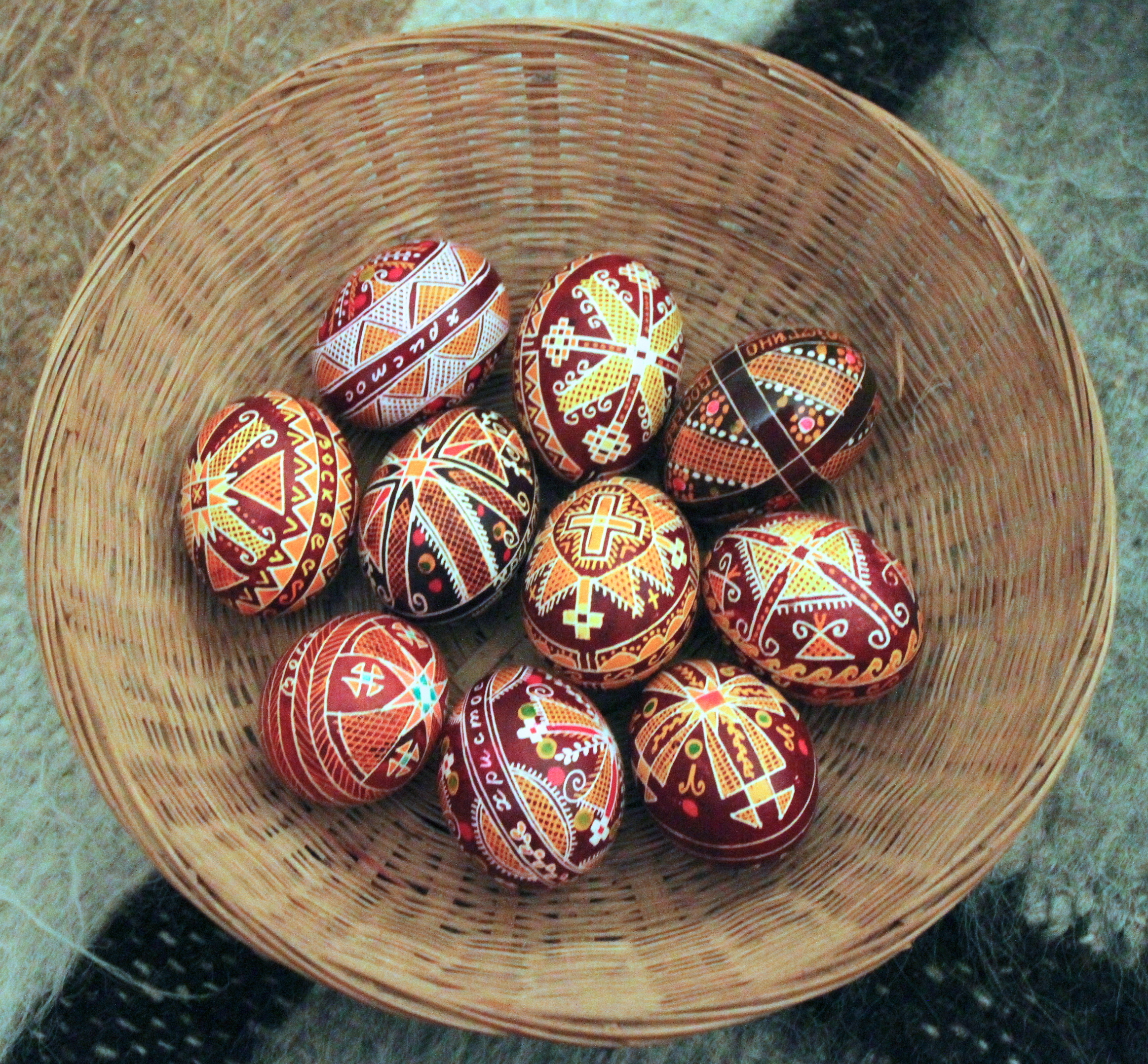 Traditional pysanky from the Hutsul ethnographic region of Ukraine